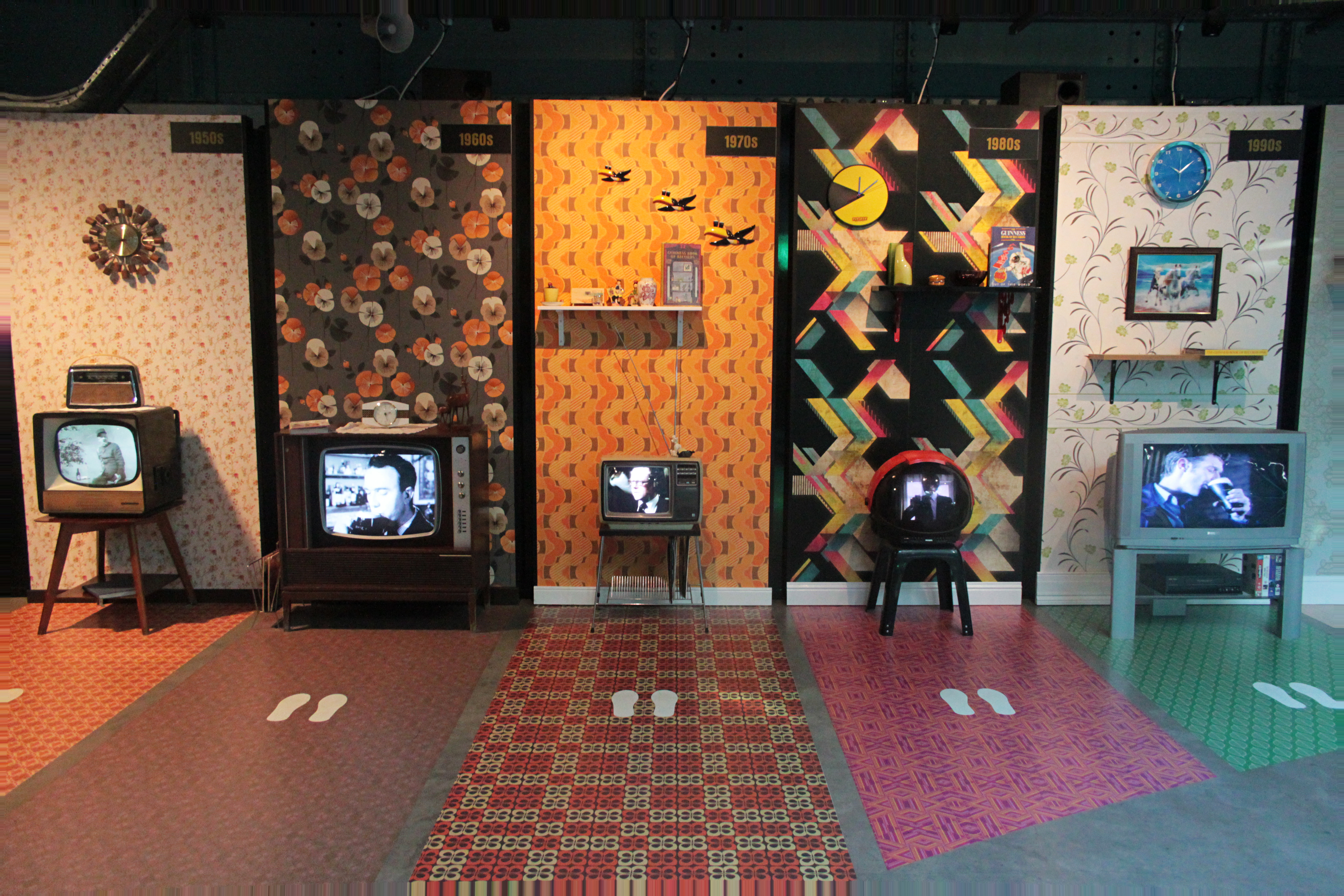 Television sets from different decades, Dublin Guinness museum.